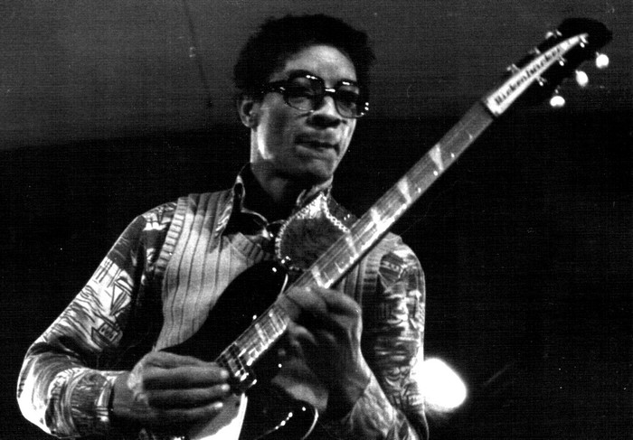 American Chicago blues guitarist and singer Hubert Sumlin in France